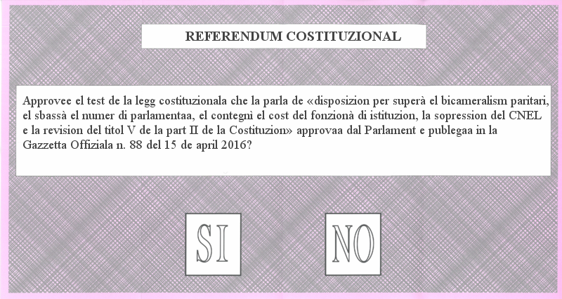 Voting paper of Italian Constitutional Referendum translated in Lombard. Derived from Media:Voting paper Italian referendum December 2016.png